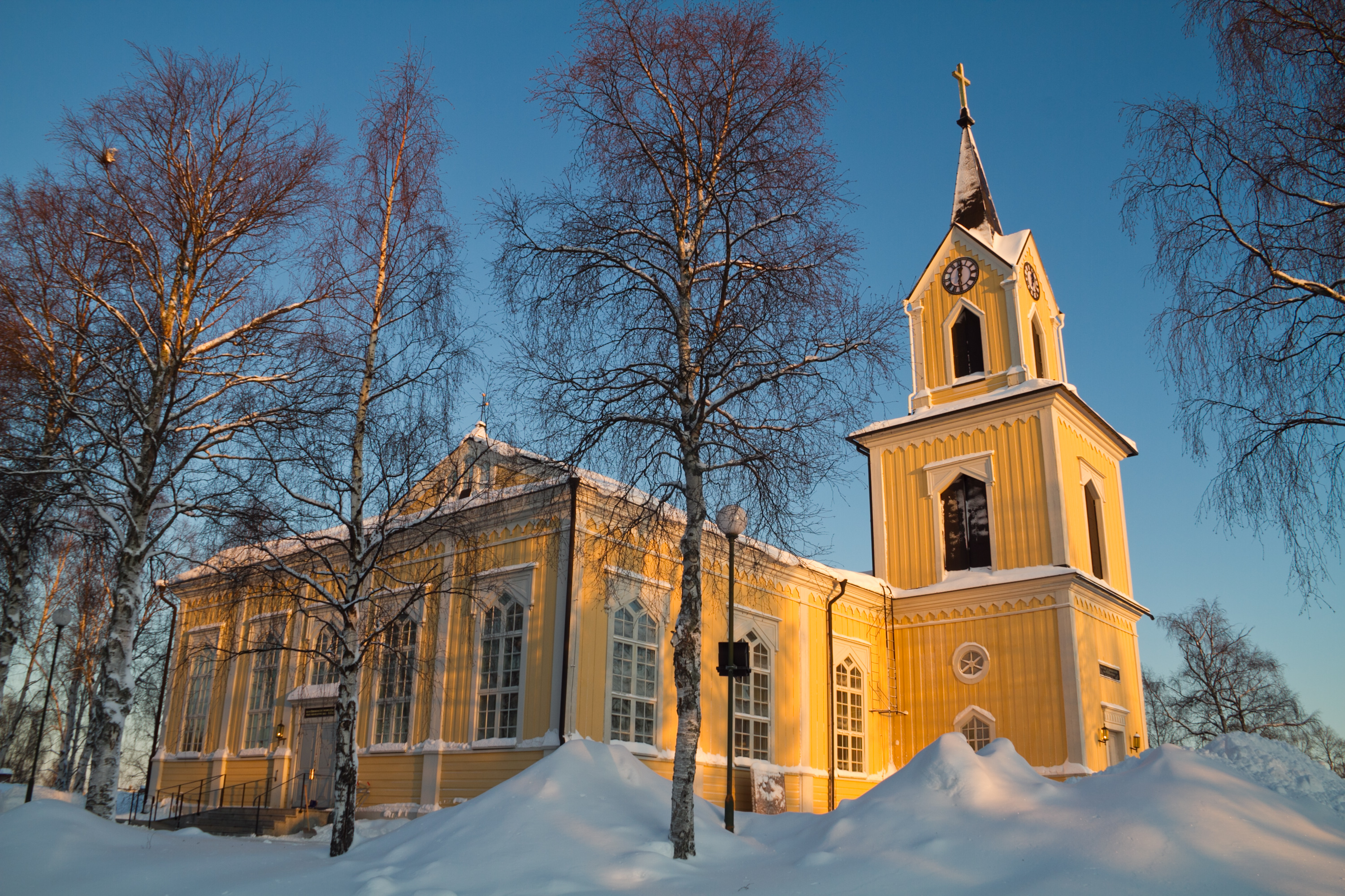 View from west of Råneå church, Norrbotten, Sweden.